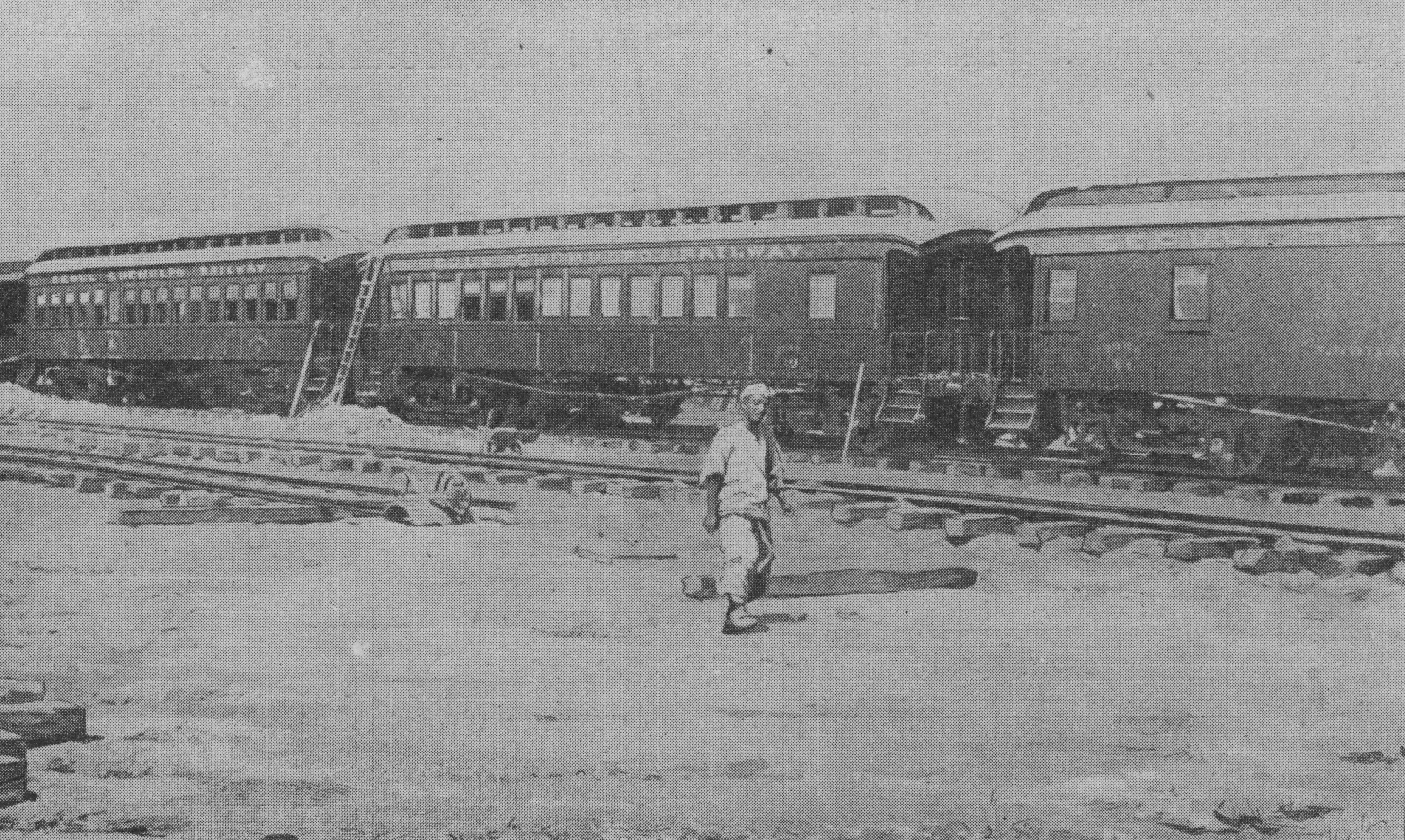 A passenger train of the Gyeongin Railway (Seoul & Chemulpo Railroad), around 1899.